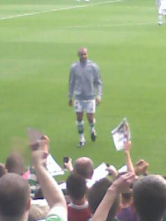 Henrik larsson before kick-off at the Celtic v Man U John Kennedy testimonial match